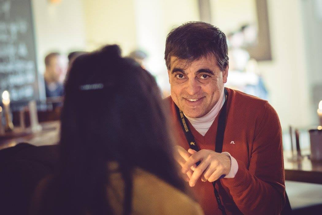 Stéphane Bertola (ARTE Brunch @ 27. Filmfest Dresden)